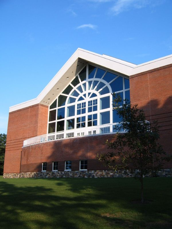 One of the gables of the John M. Lilley Library on the campus of Penn State Erie in Harborcreek Township, Erie County, Pennsylvania, United States.